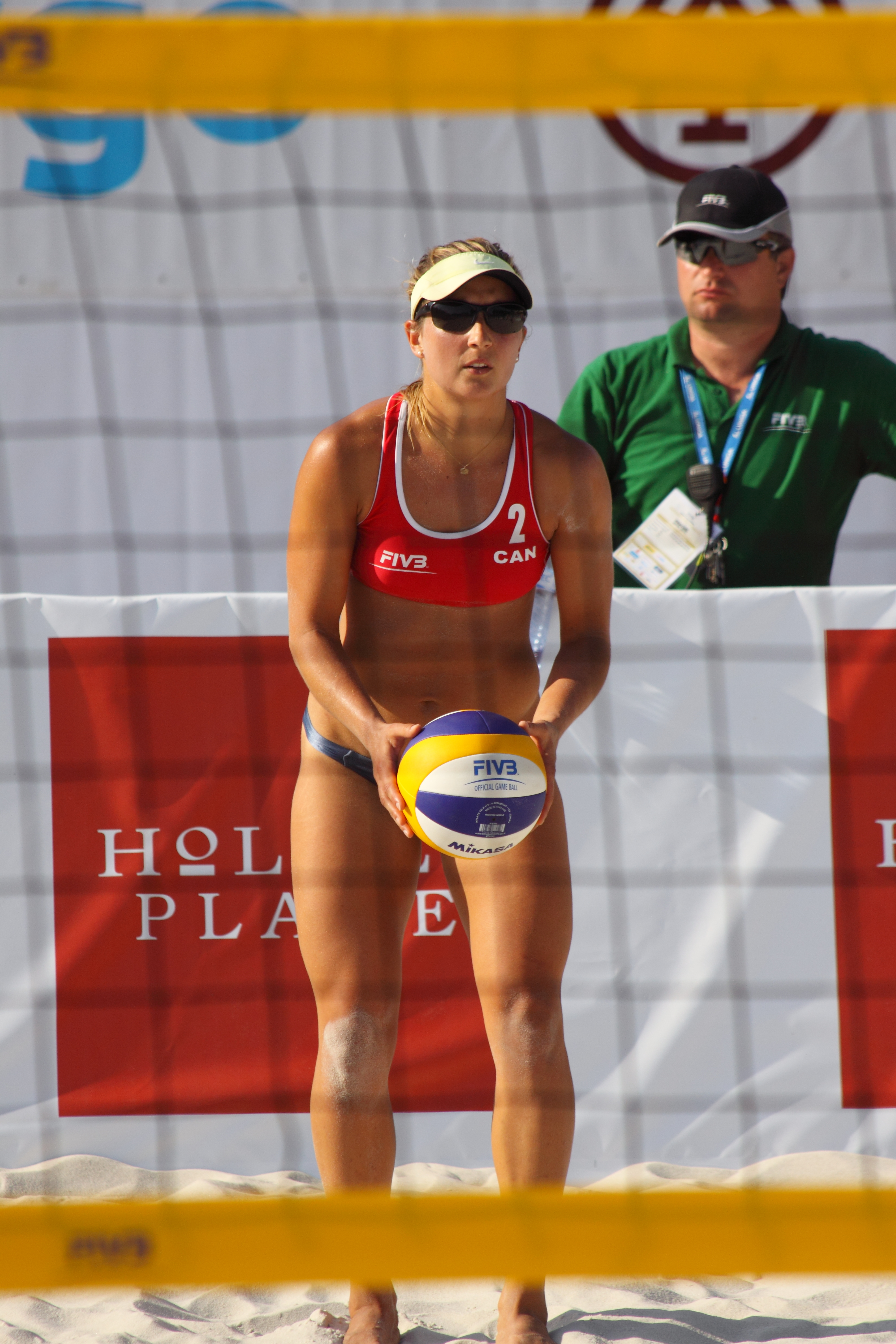 Heather Bansley at Patria Direct Open 2014 in Prague